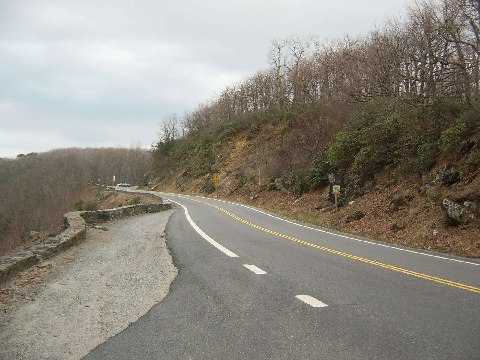 Lover's Leap Overlook on US 58 in Patrick County, VA.